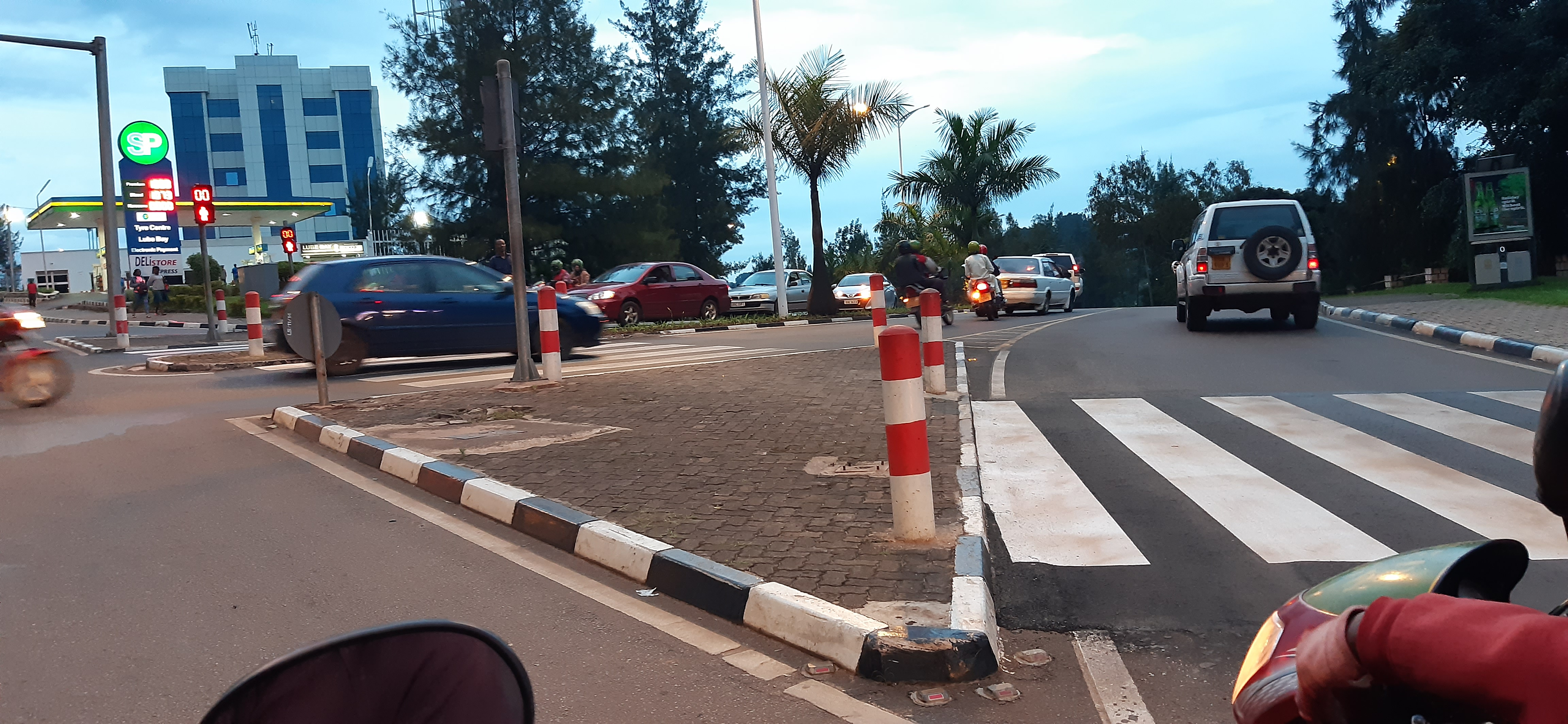 A road with a zebra crossing in Kigali. This is an image with the theme "Africa on the Move or Transport" from: Rwanda